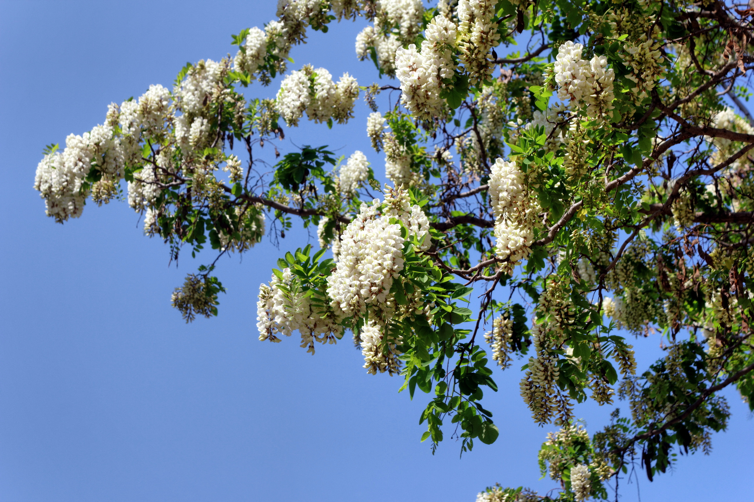 Fabaceae flower)